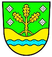 Coat of arms of Kabelsketal